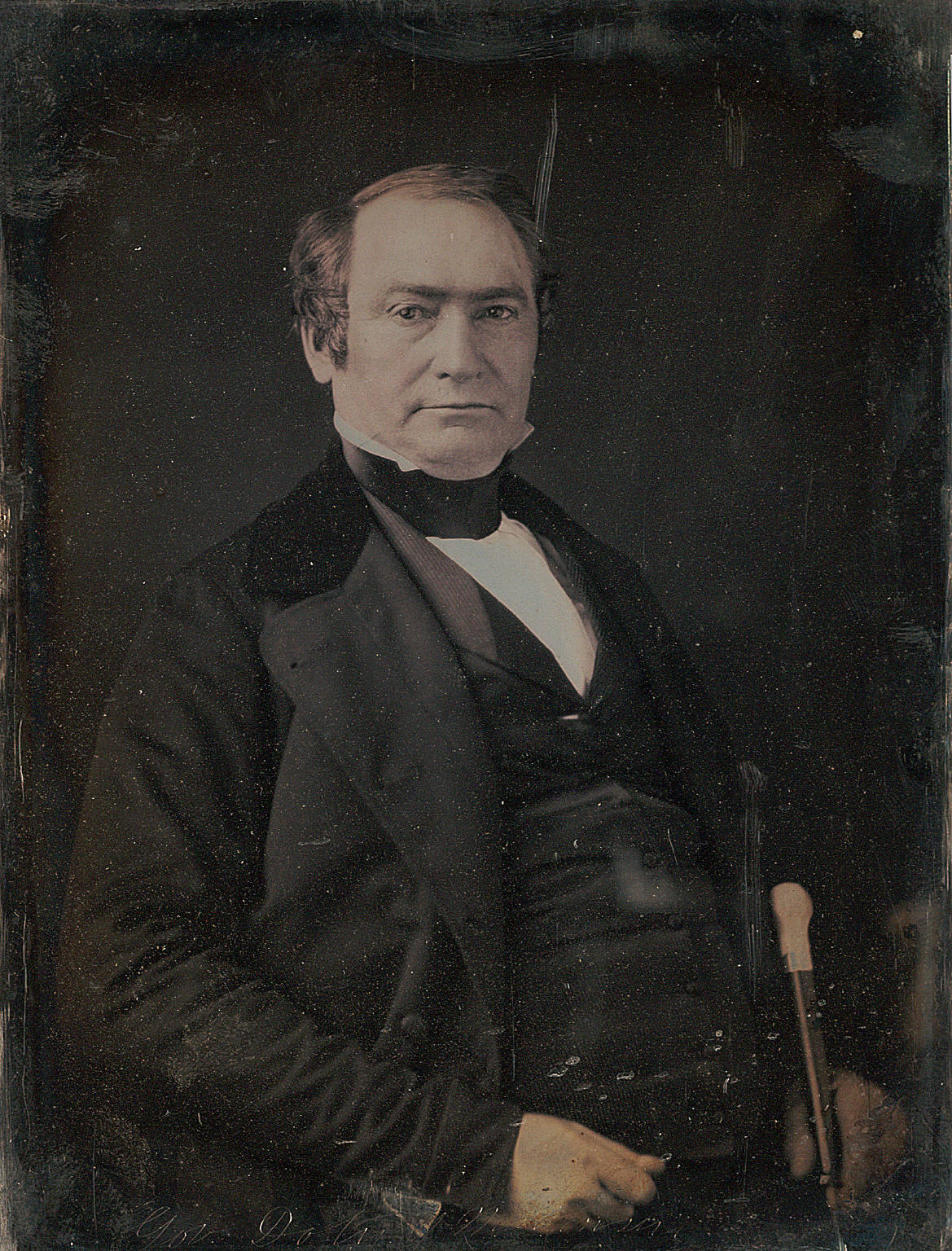 Daguerreotype portrait of Wisconsin politician James Duane Doty, taken by photographer Mathew Brady at Philadelphia, 1849-1850. Courtesy of the Beinecke Rare Book & Manuscript Library, Yale University. [1]